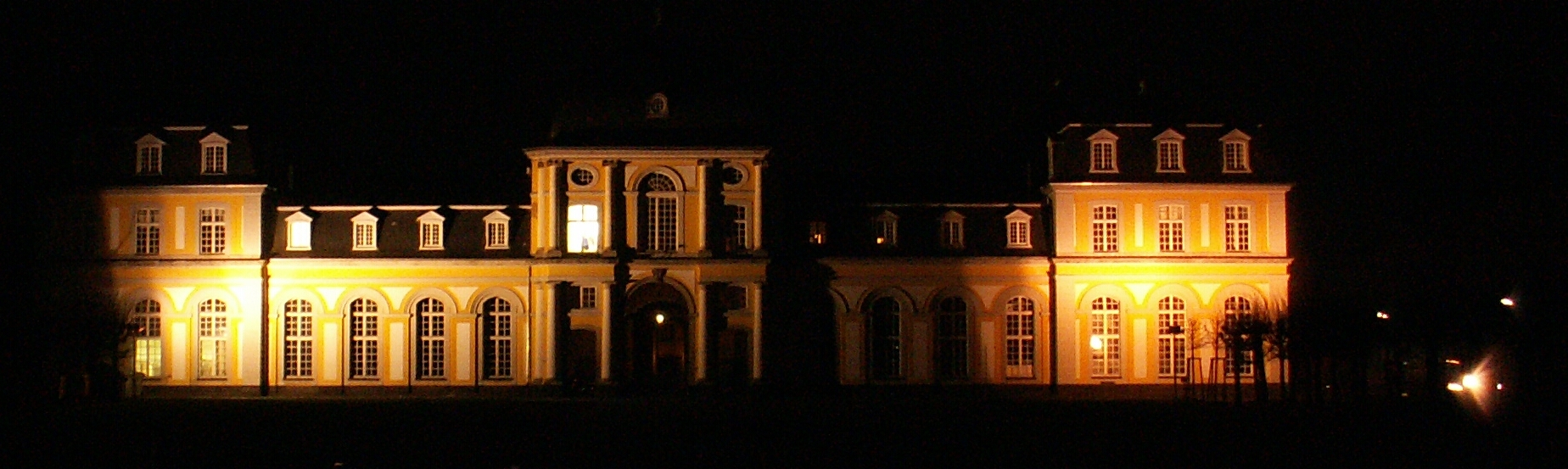 Castle of Poppelsdorf in Bonn.